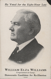 Former United States Representative from Illinois William Elza Williams.